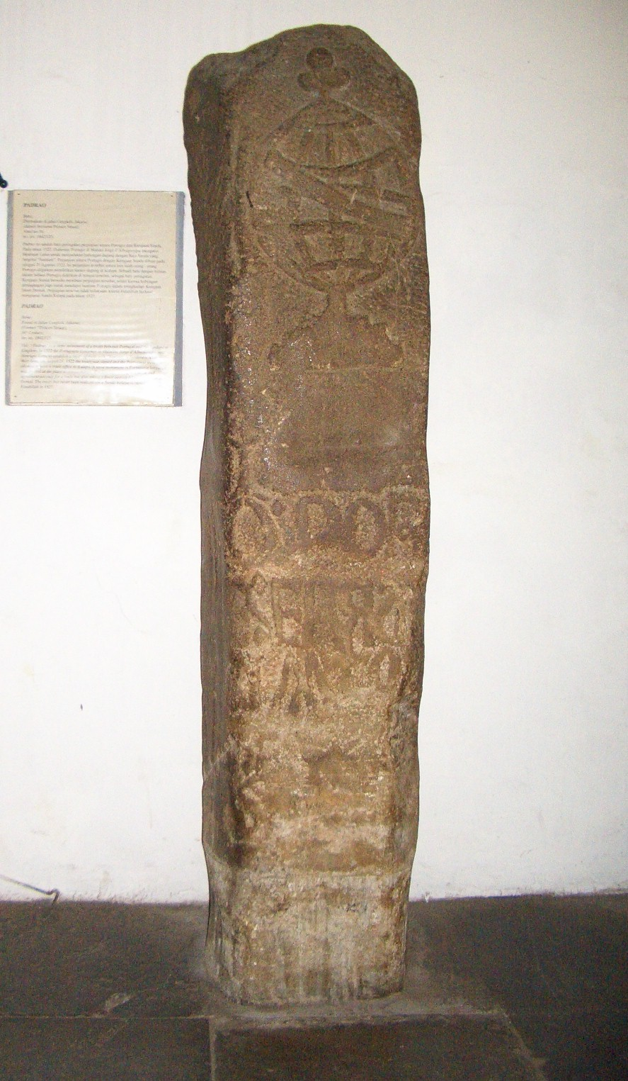 Luso Sundanese padrão, Indonesian National Museum, Jakarta, Indonesia. Photo made during the author's visit to the museum.